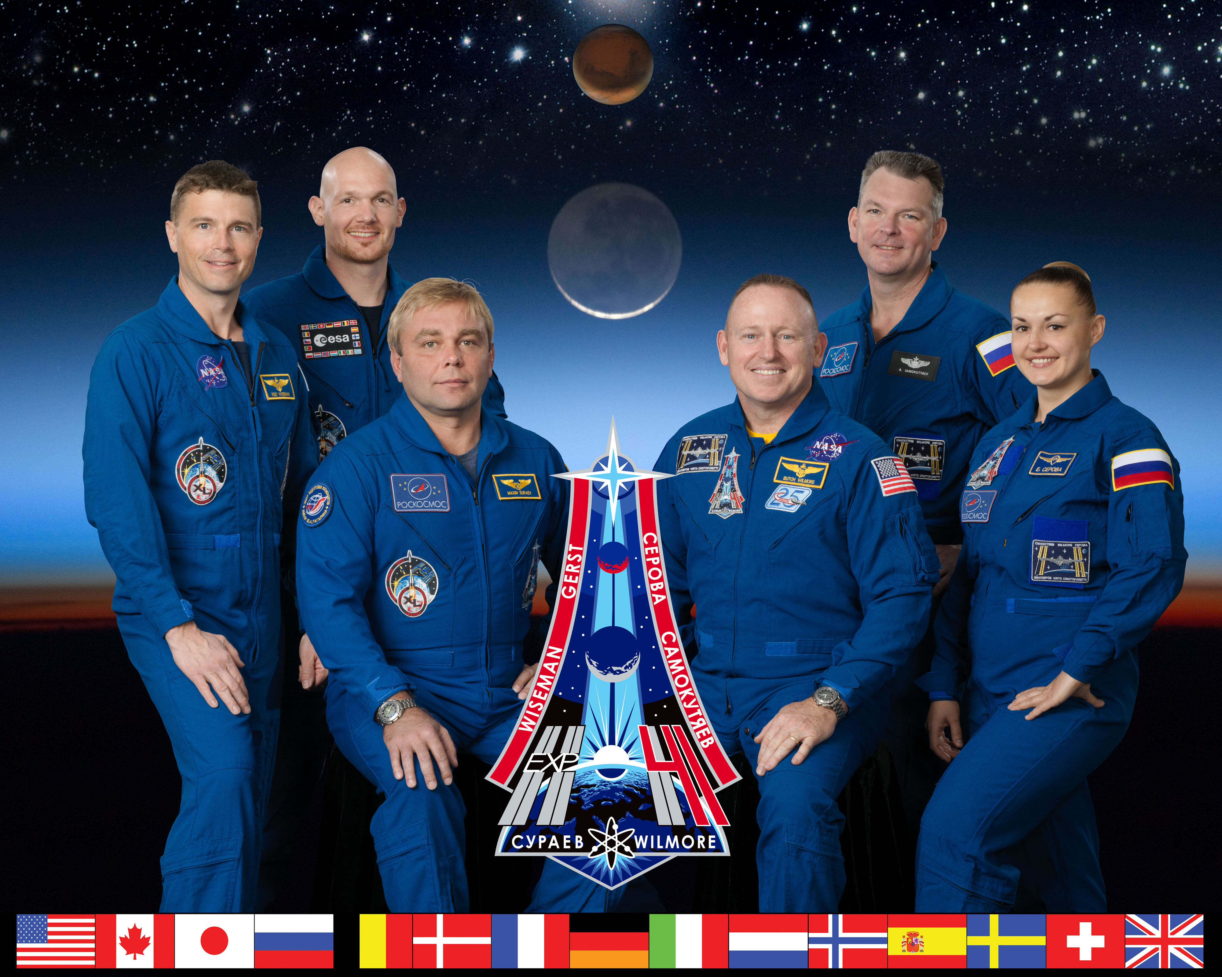 Expedition 41 crew members take a break from training at NASA's Johnson Space Center to pose for a crew portrait. Pictured on the front row are Russian cosmonaut Maxim Suraev (left), commander; and NASA astronaut Barry Wilmore, flight engineer. Pictured from the left (back row) are NASA astronaut Reid Wiseman, European Space Agency astronaut Alexander Gerst, Russian cosmonauts Alexander Samokutyaev and Elena Serova, all flight engineers.